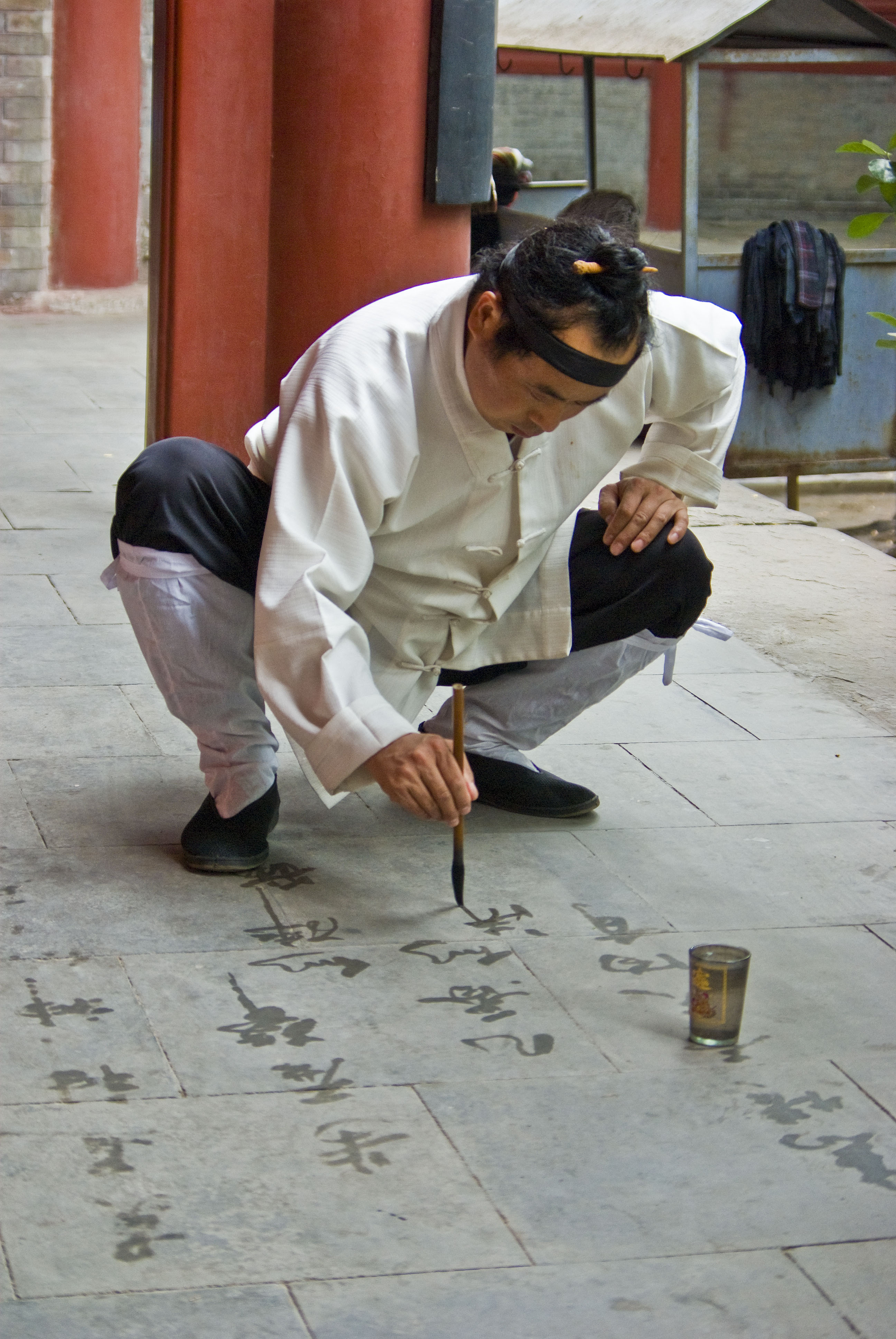 A Taoist monk, Beijing.